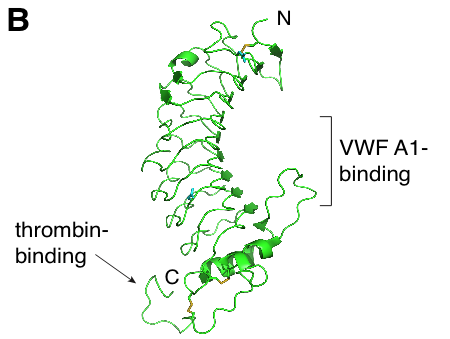 Ribbon diagram illustrating the crystal structure of the GPIbα N-terminal domain particularly showing the regions of the vWF A1 and thrombin binding sites.